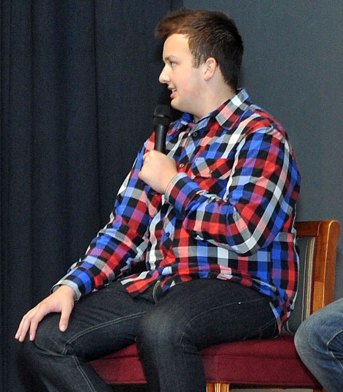 Noah Munck at the Joint Base McGuire-Dix-Lakehurst. The cast of Nickelodeon hit "iCarly" take the time to answer questions and pose fro the Joint Base McGuire-Dix-Lakehurst community during a special screening of an upcoming episode of "iCarly" dealing with military family separation, Jan. 12.